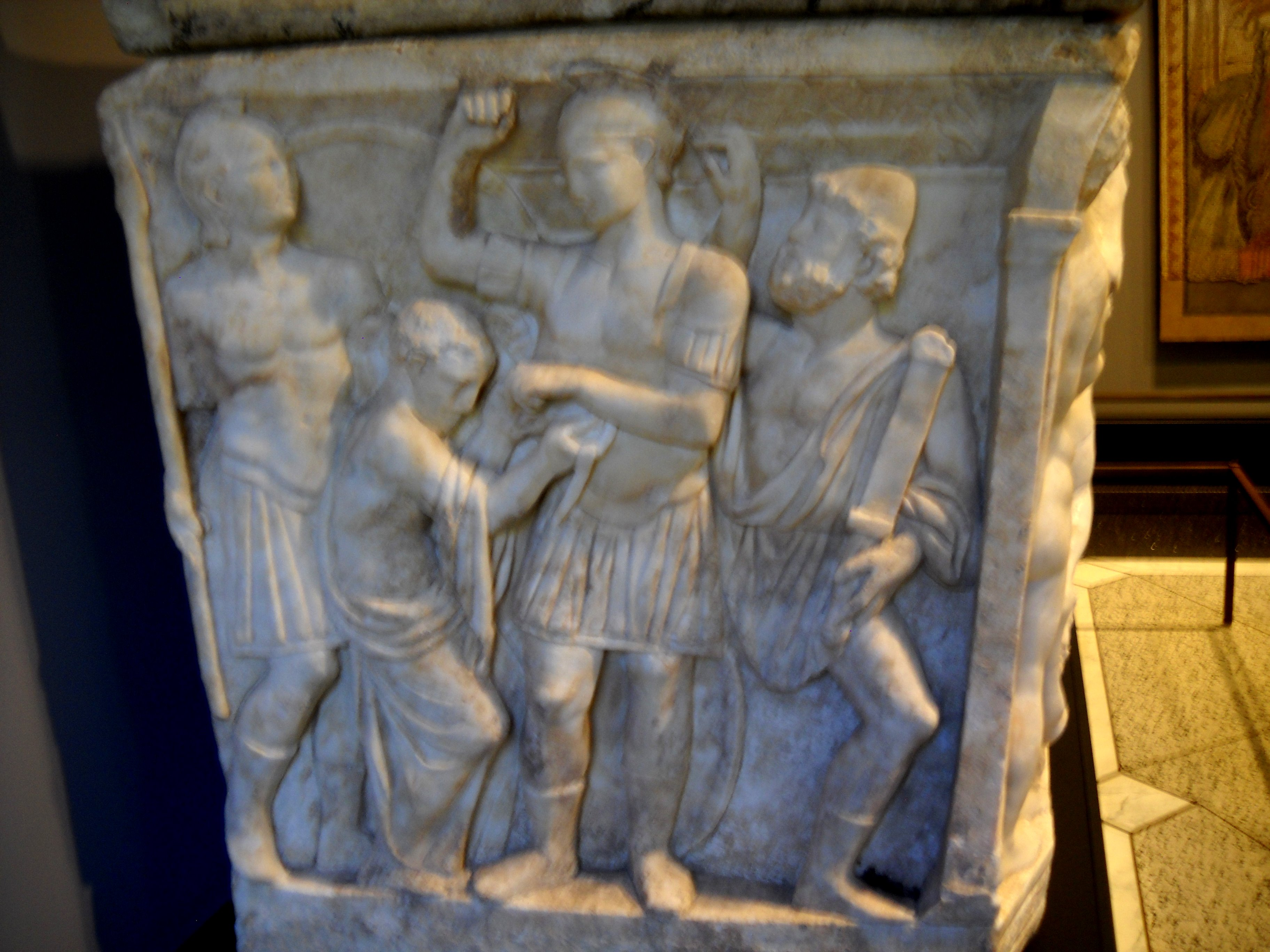 Sarcophagus with Scenes from the Life of Achilles (Roman, made in Attica, AD 180-230) - Achilles dons his armor with the help of Odysseus (Iliad, book 19, ll. 429-463).